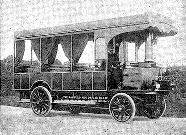 operated by Mansfield Motorcar Co Ltd